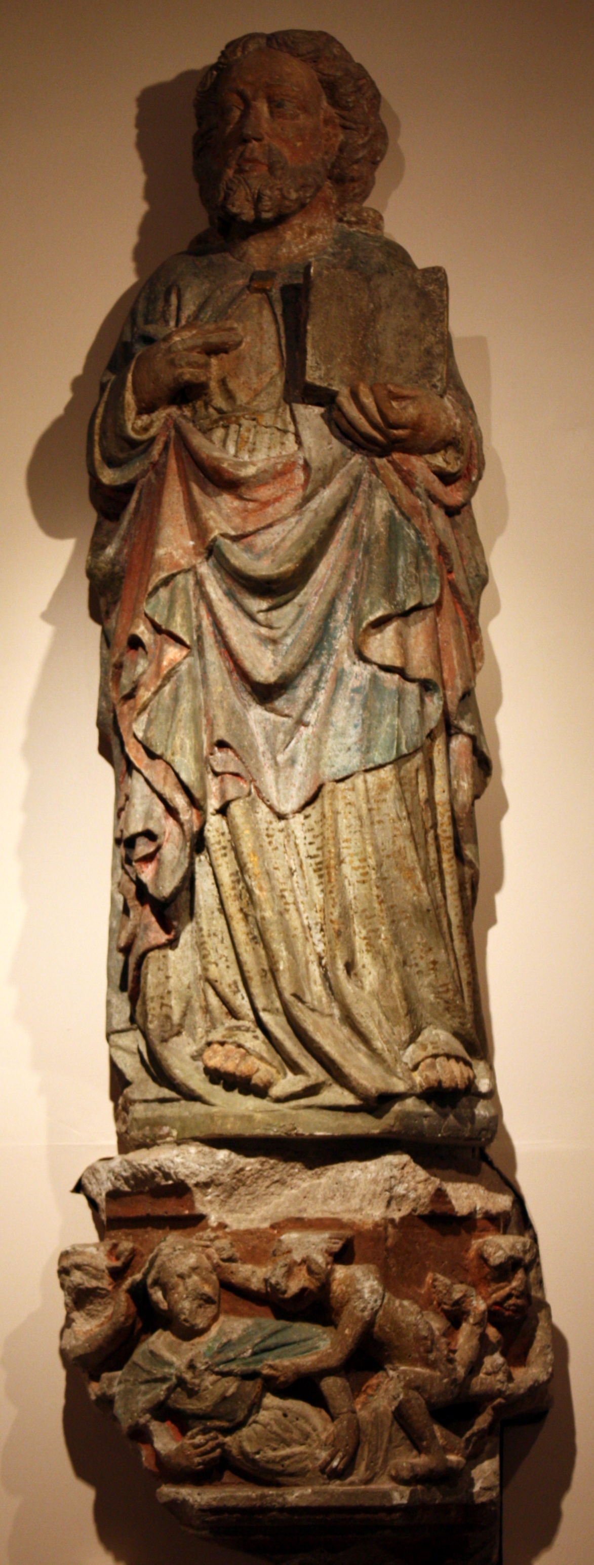 Malbork, Castle of Teutonic Order